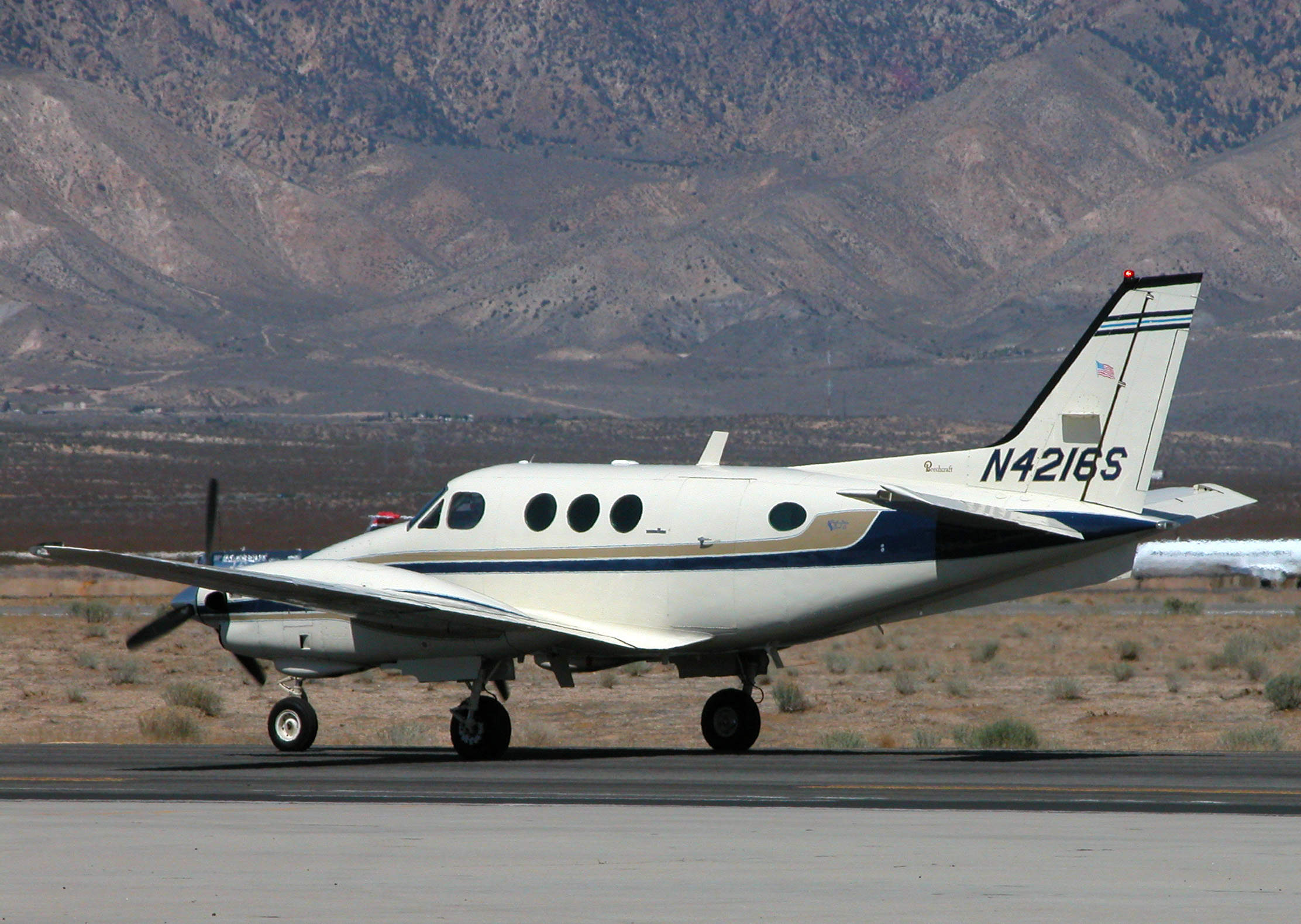 Beechcraft King Air E90 (N4216S) taxis at the Mojave Spaceport